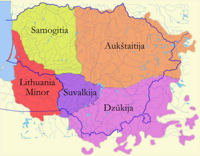 Etnographic regions of Lithuania (based on 19th century culture)